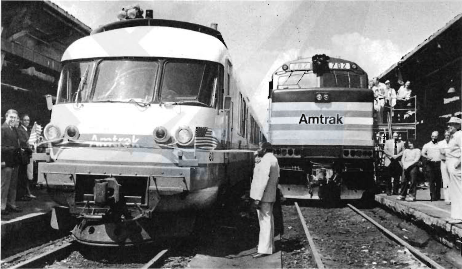 The first westbound Lake Cities arrives at Detroit in August 1980. An exhibition train of new equipment is at right.